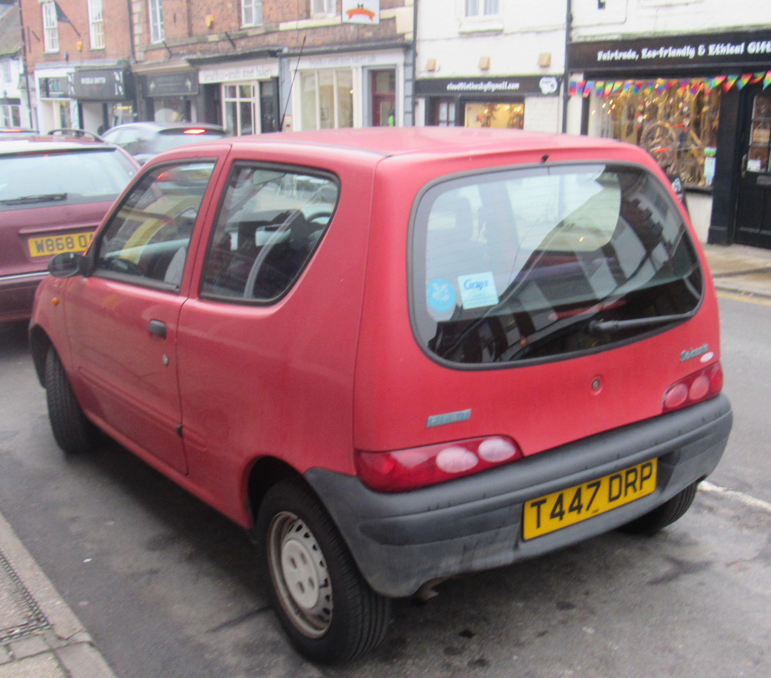 1999 Fiat Seicento Mia Rear Taken in Warwick